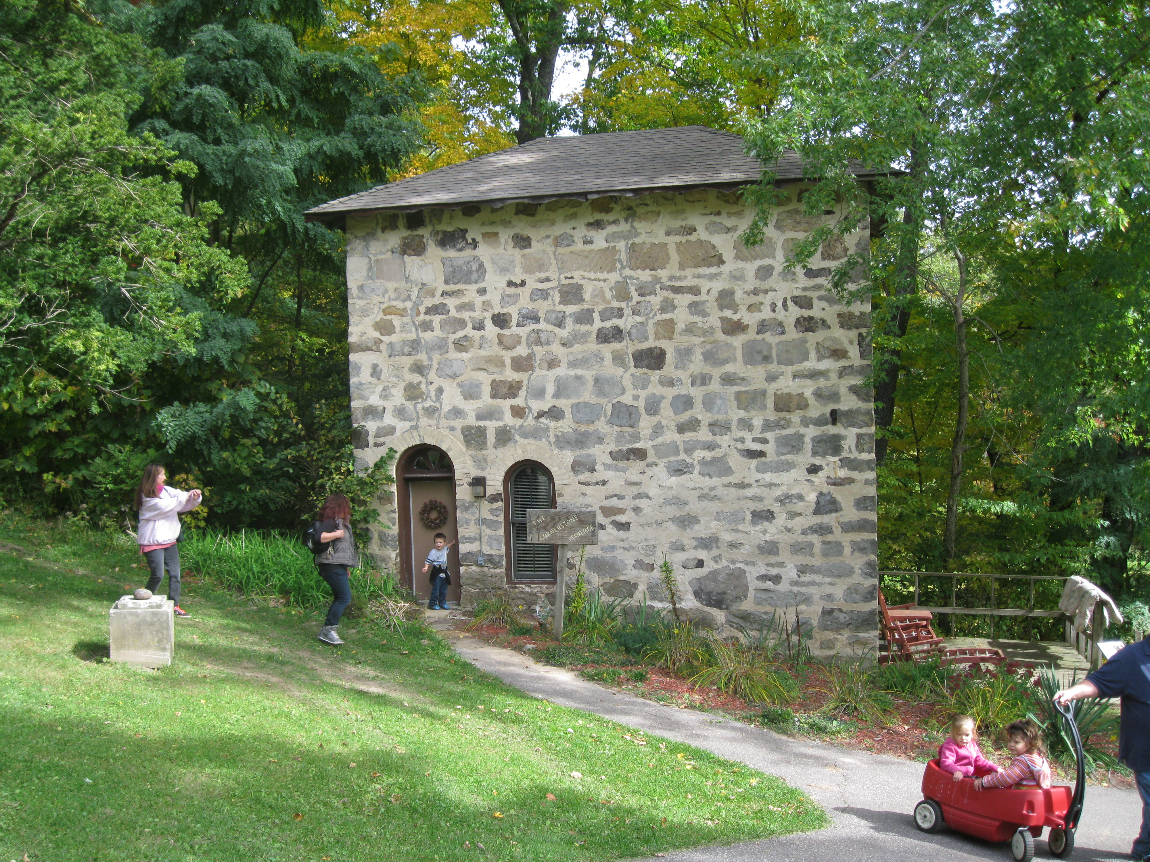 The stone art studio at Durward's Glen in Caledonia, Columbia County, Wisconsin.